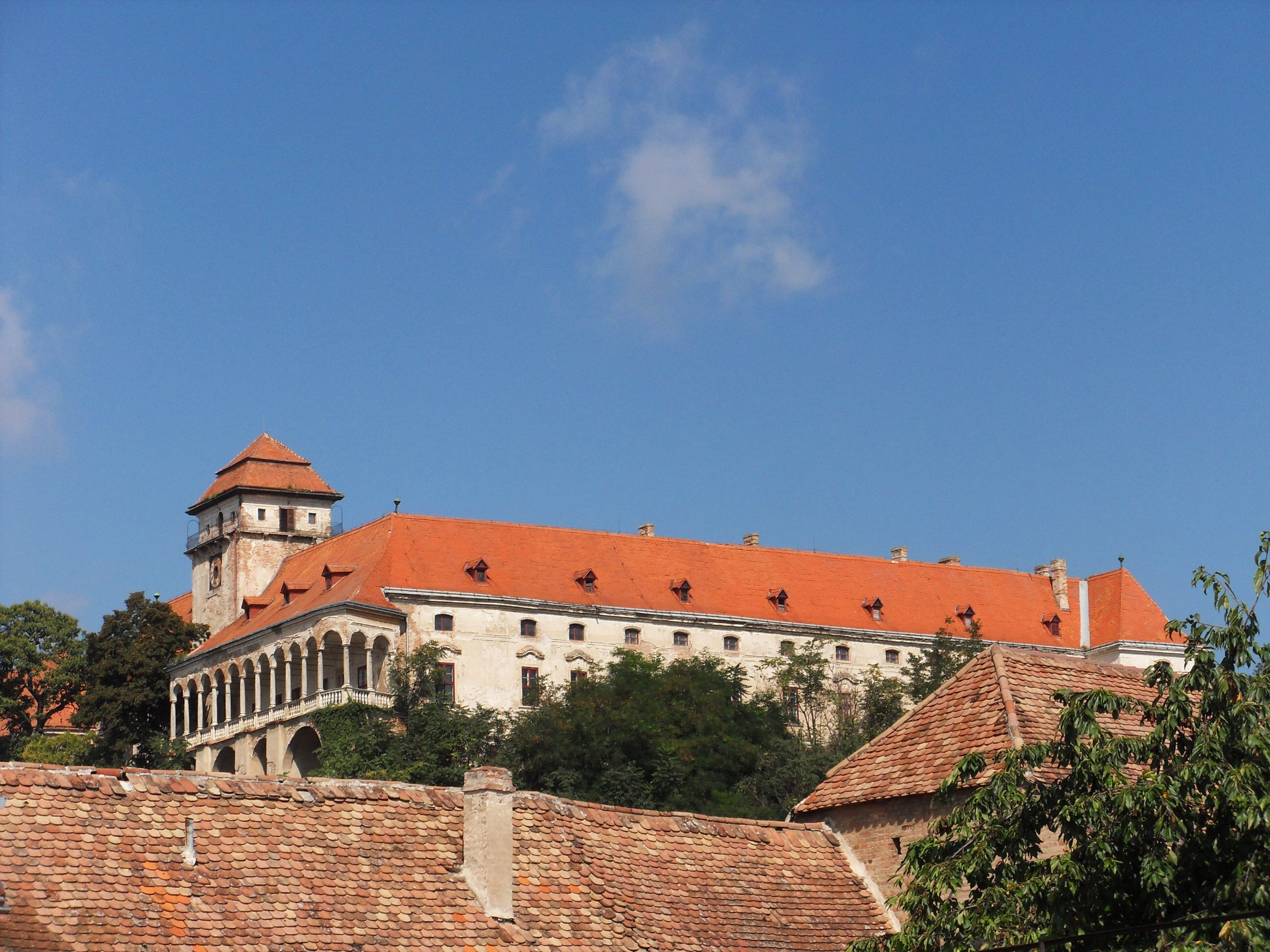 Jaroslavice castle, Znojmo district, Czech Republic